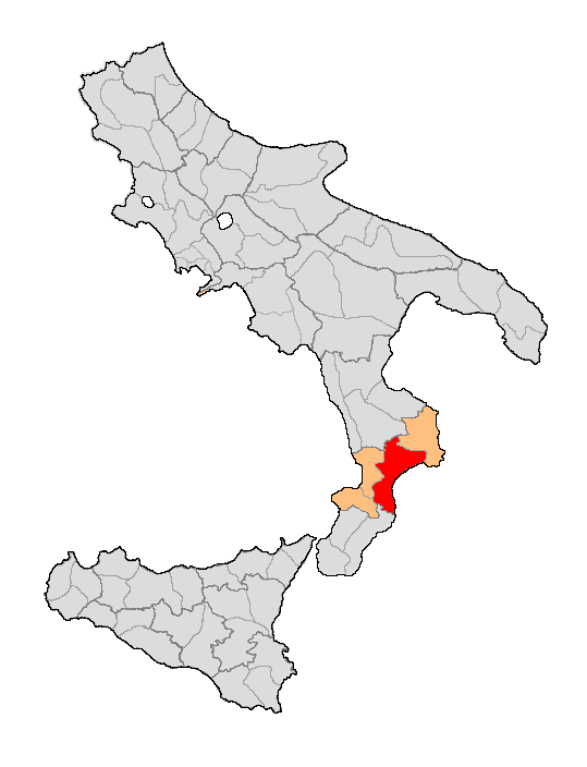 Locator map of Distretto di Catanzaro